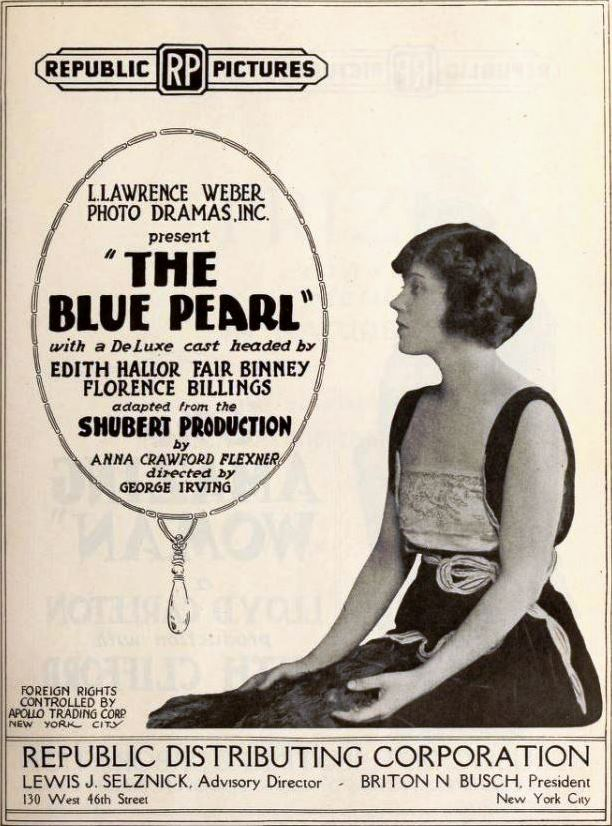 Advertisement for the American mystery film The Blue Pearl (1920) with Edith Hallor, on page 15 of the December 13, 1919 Exhibitors Herald.